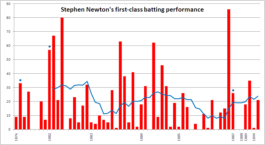 First-class career batting chart for Stephen Newton. Blue line is an average for ten most recent innings, blue dots are not outs. Bars are runs scored. Own work, created using MS Excel and MS Paint. Data sourced from CricketArchive.